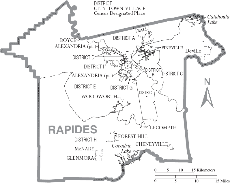 Map of Rapides Parish, Louisiana, United States with municipal and district boundaries